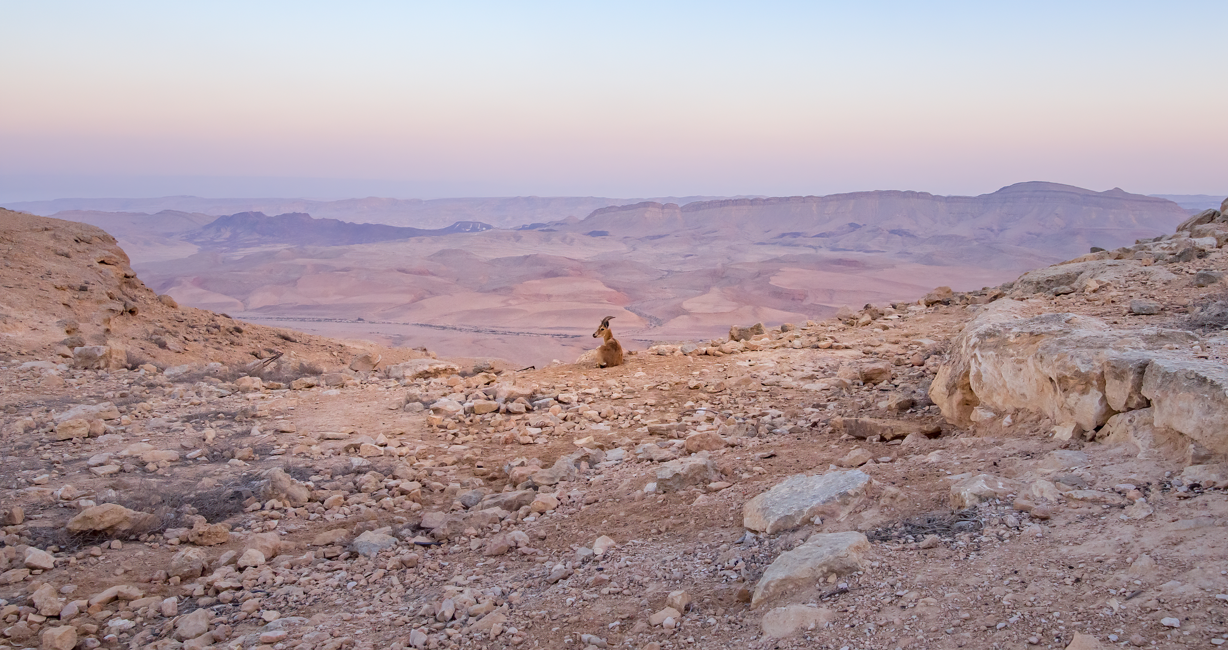 Nubian ibex (Capra nubiana) along a cliff of Makhtesh Ramon.